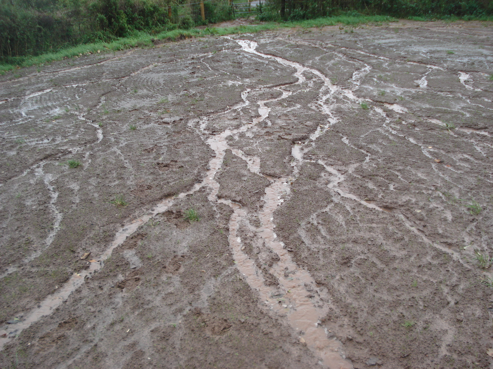 Part of an actively eroding rill network from Tyrone, Ireland. To be used in rill